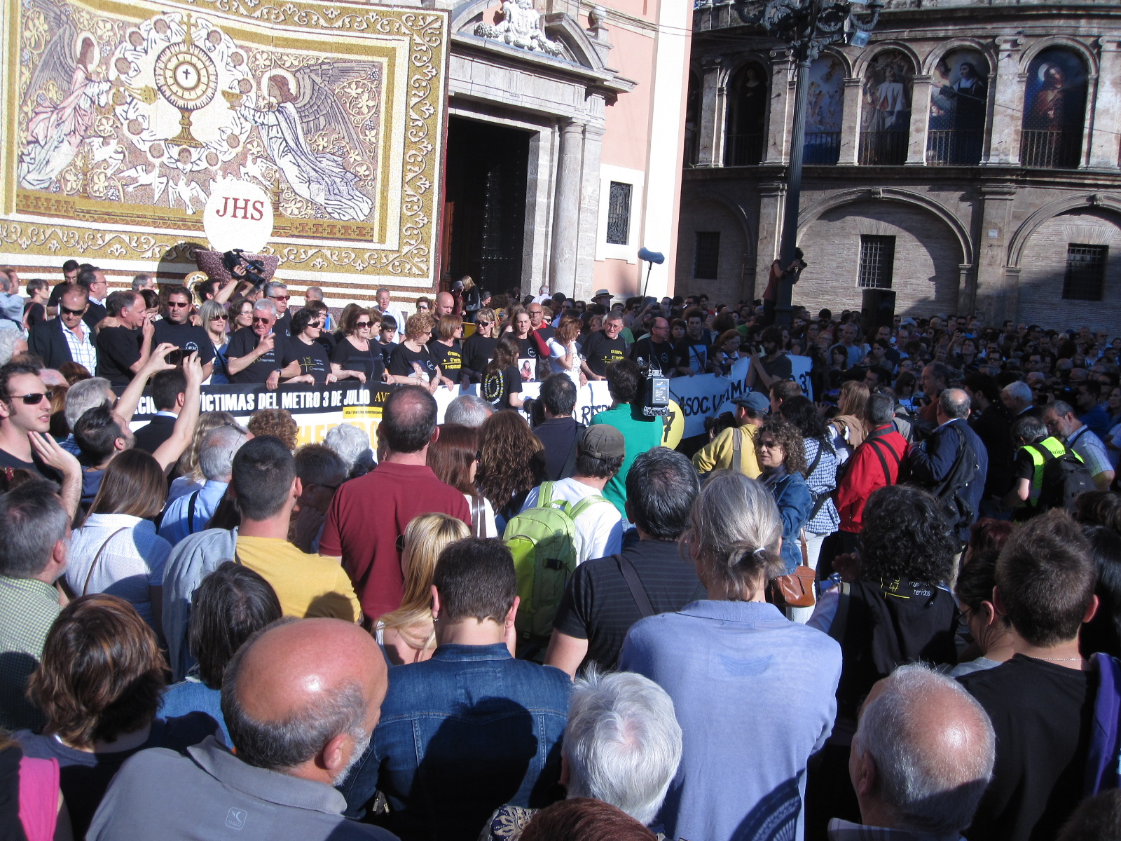 Concentration of protest in the Virgin Square by the Valencia underground accident in 2006. June 3, 2013